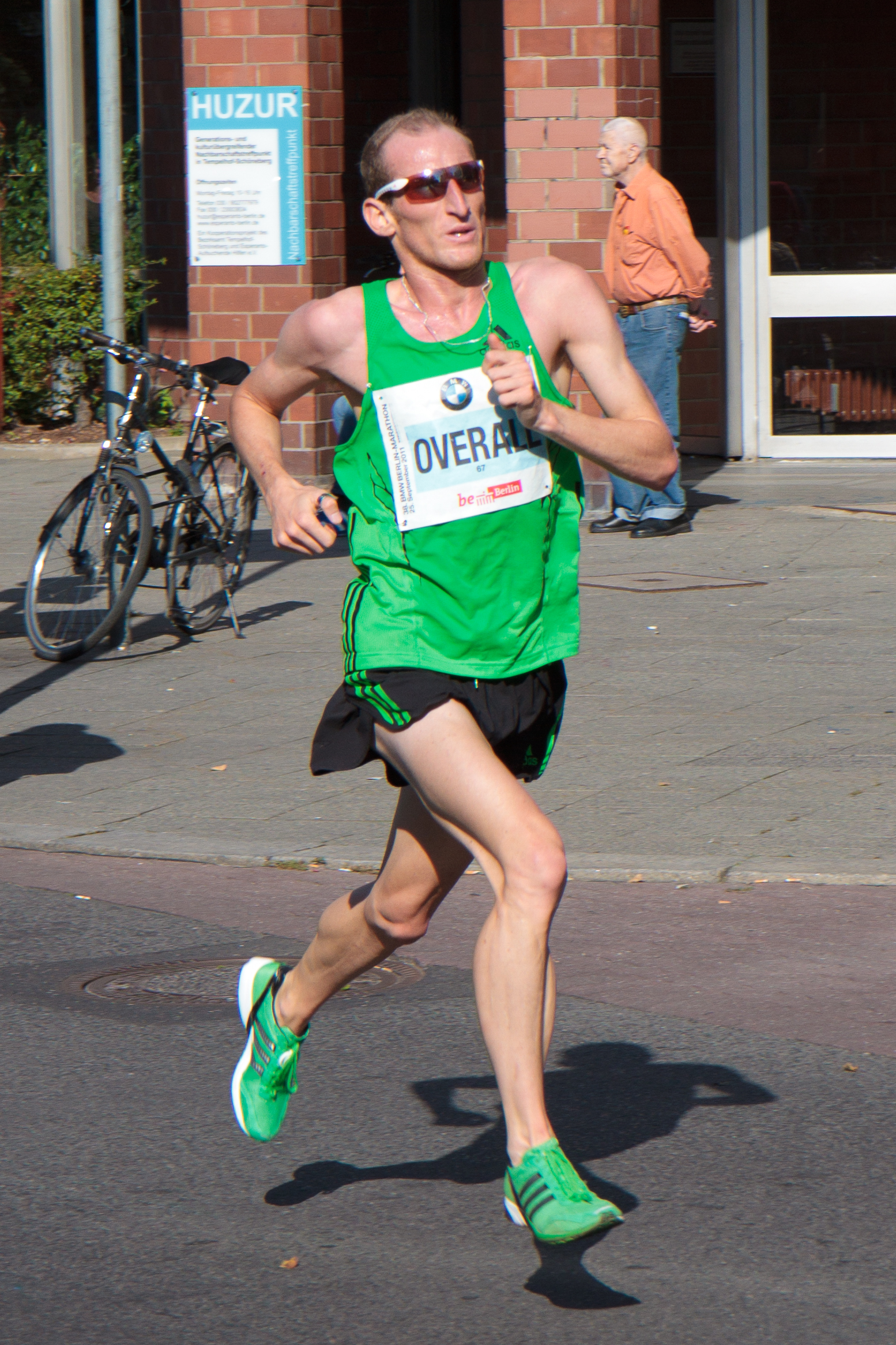 Scott Overall at the Berlin Marathon 2011